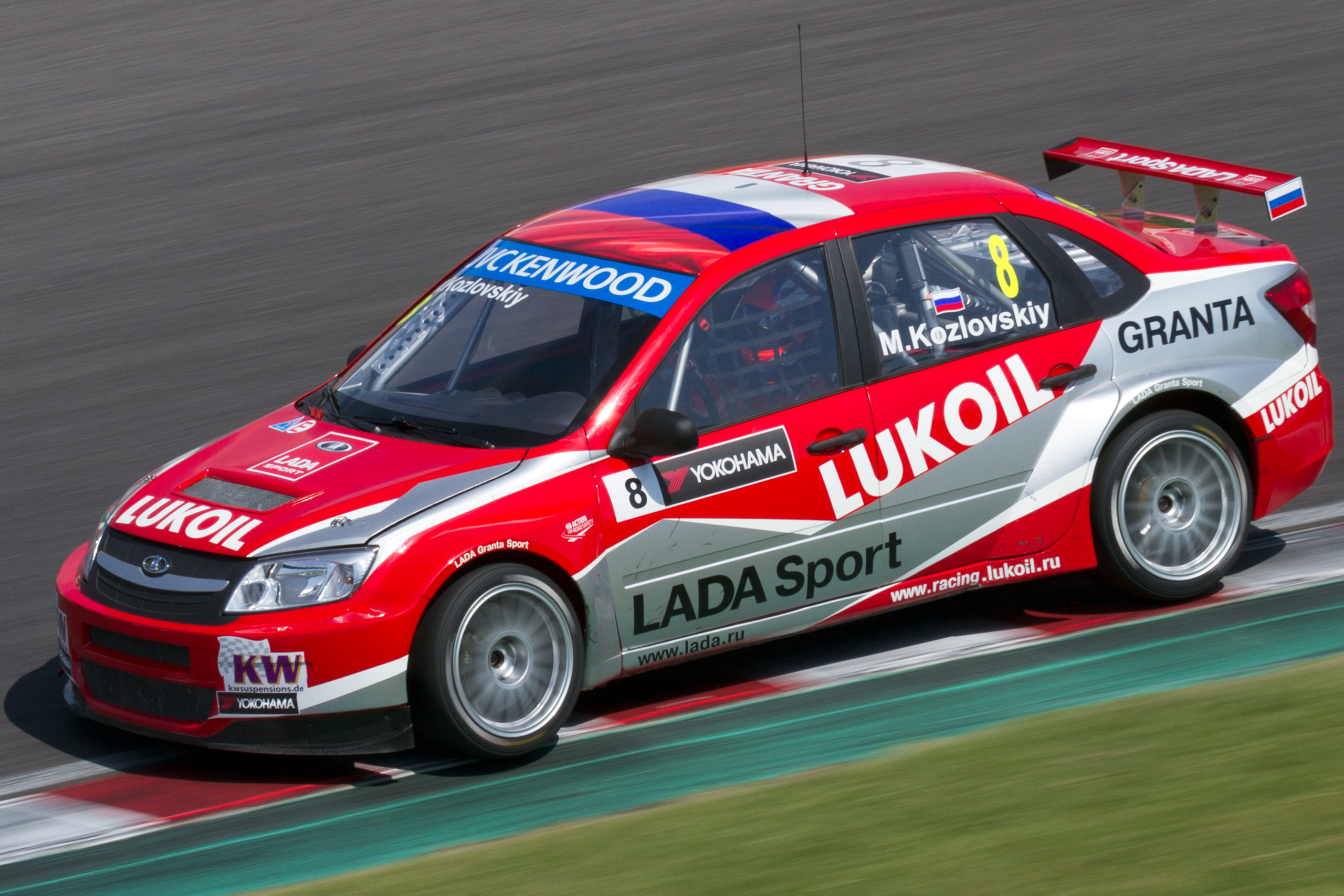 World Touring Car Championship 2013 Race of Japan: Mikhail Kozlovskiy (Lada Sport)